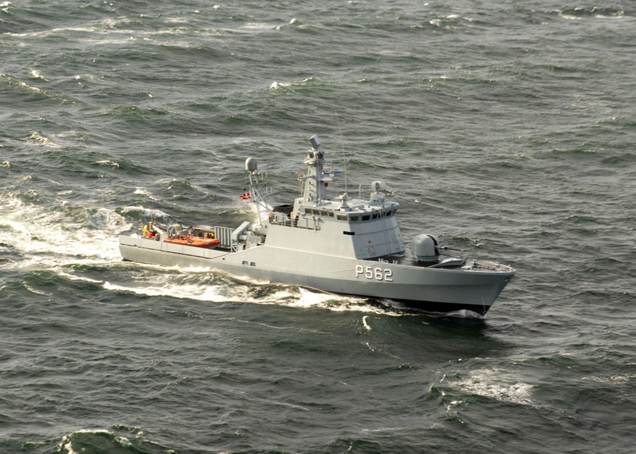 The Danish guided-missile patrol craft HDMS Viben (P562) steams through the Baltic Sea during exercises supporting Baltic Operations (BALTOPS). BALTOPS is an annual international exercise involving 13 countries.